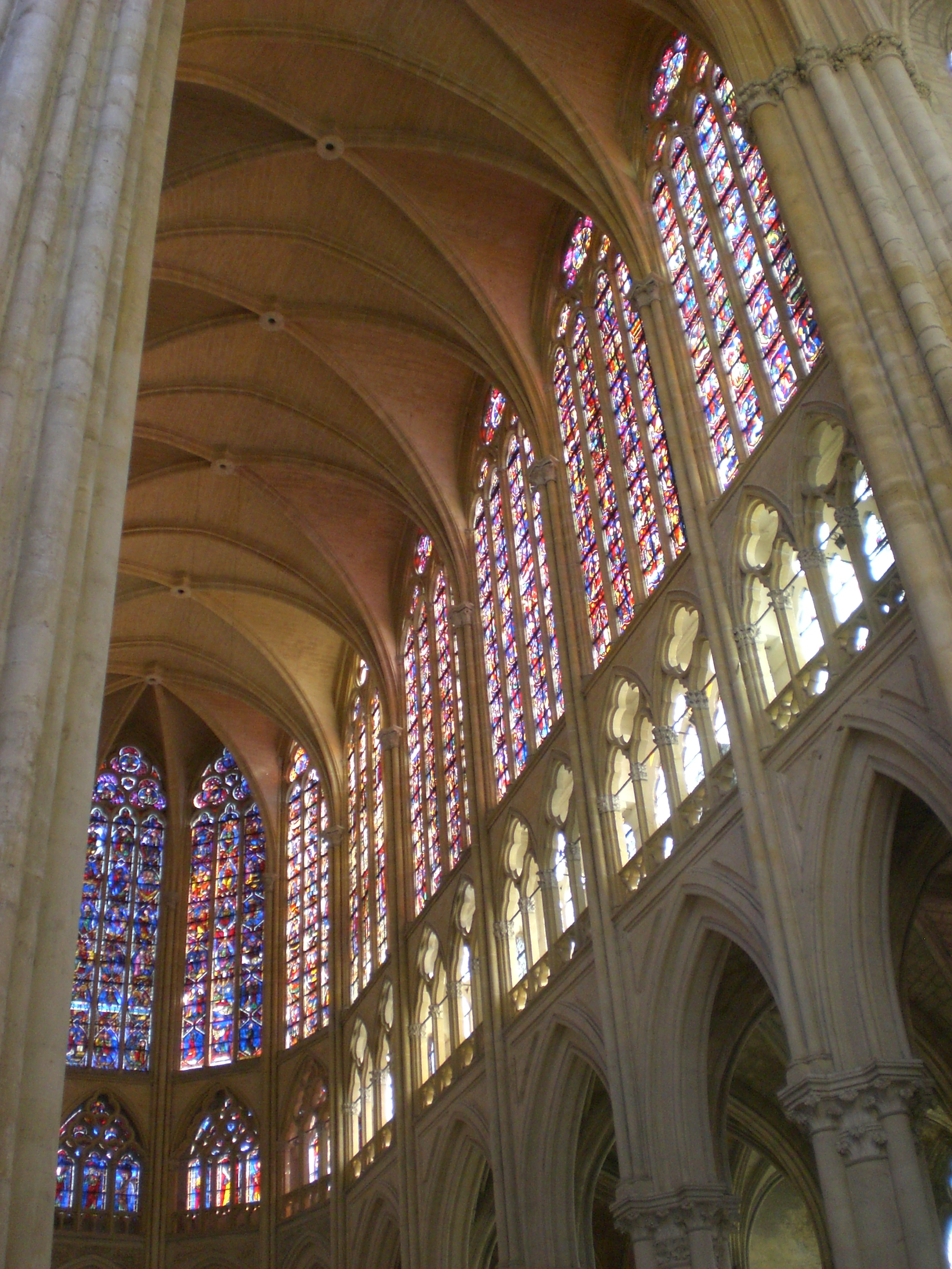 St. Gatien's Cathedral, Tours